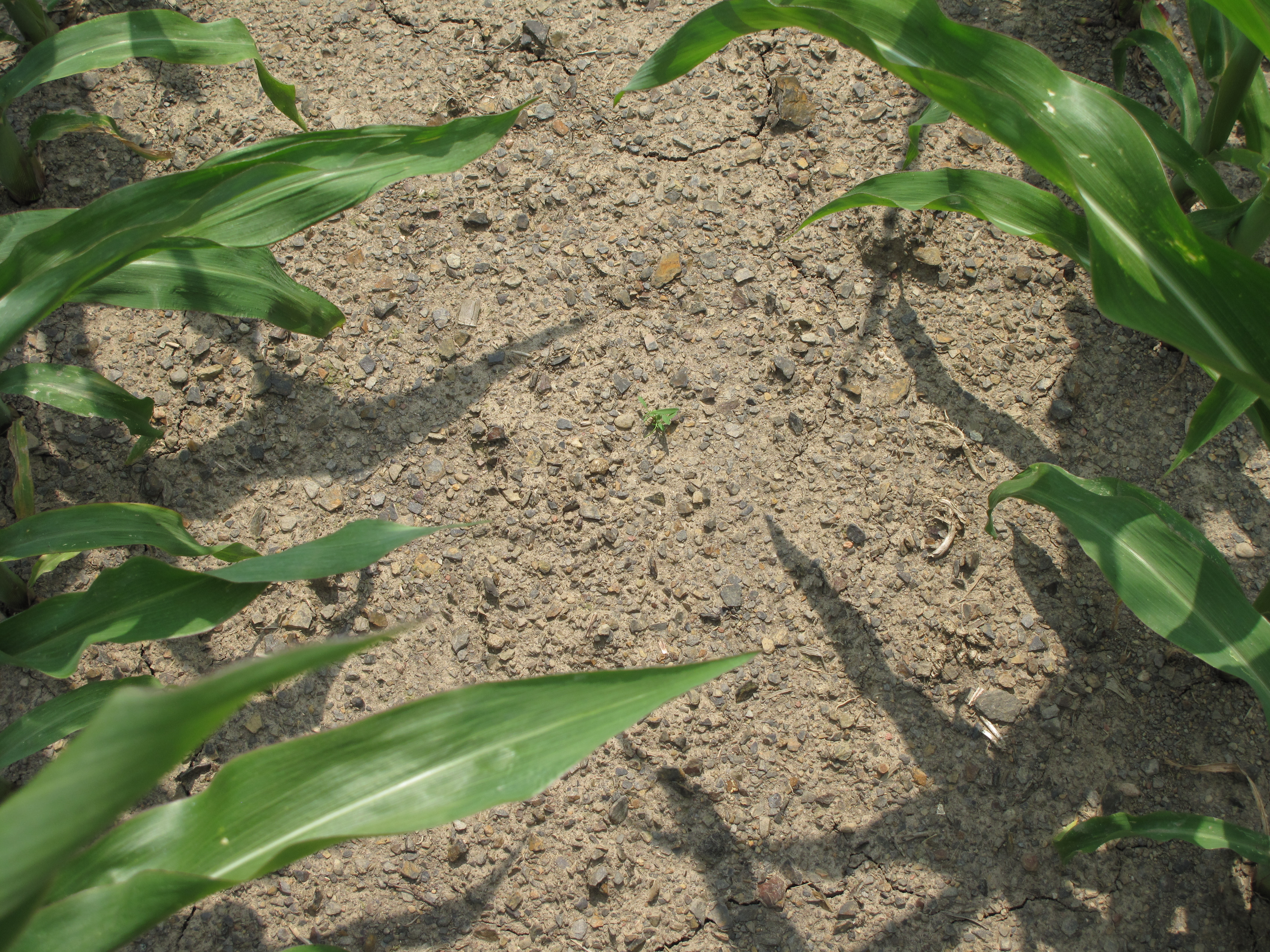 Soil in national natural memorial Vosek, Rokycany District, Czech Republic.